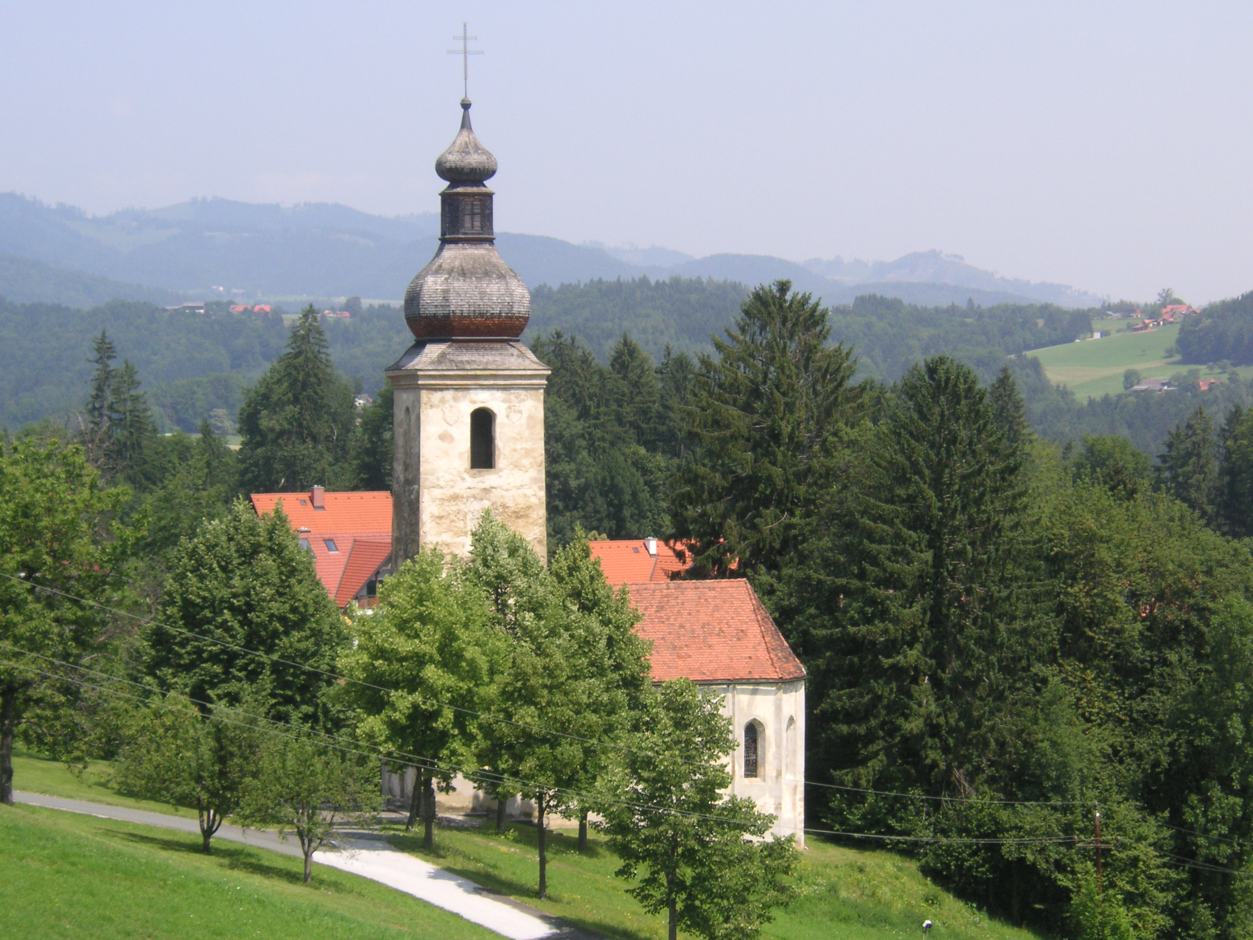 The old church of St. Bartholomä, Styria, Austria